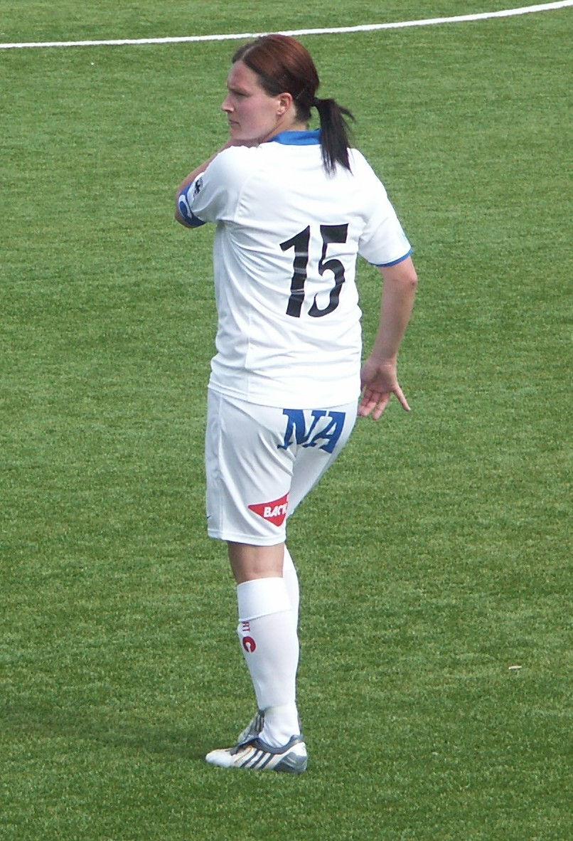 Finnish footballplayer Sanna Valkonen, captain for Swedish team KIF Örebro DFF in 2009.